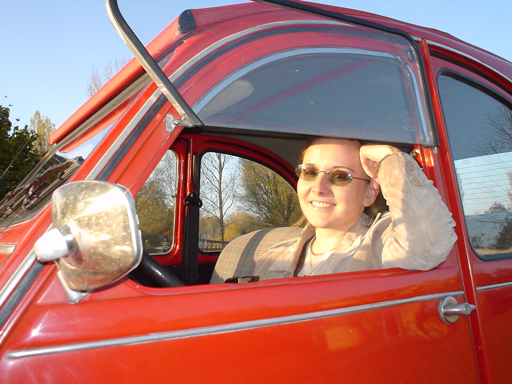 Girl In A 2CV